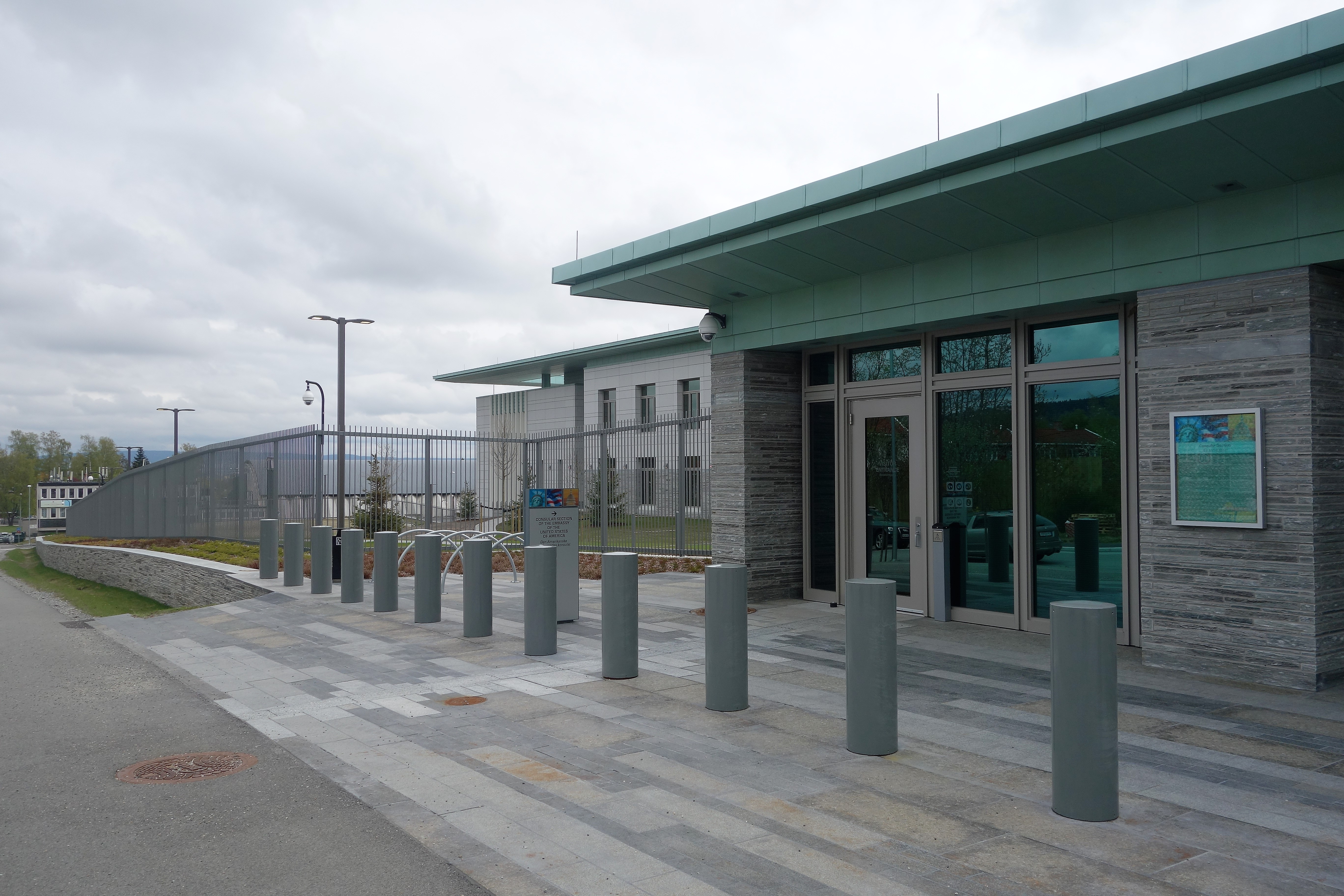 Entrance to the consular section of the embassy of the United States in Norway, Oslo. Picture taken three days before the official opening of the embassy.